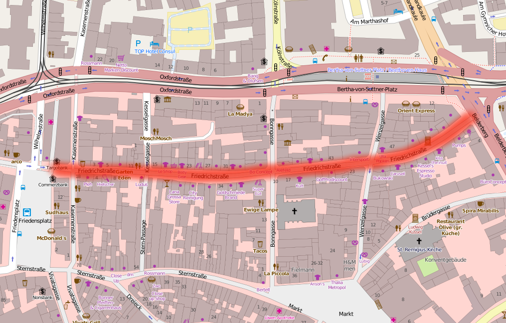 Map highlighting the Friedrichstraße in Bonn, Germany.